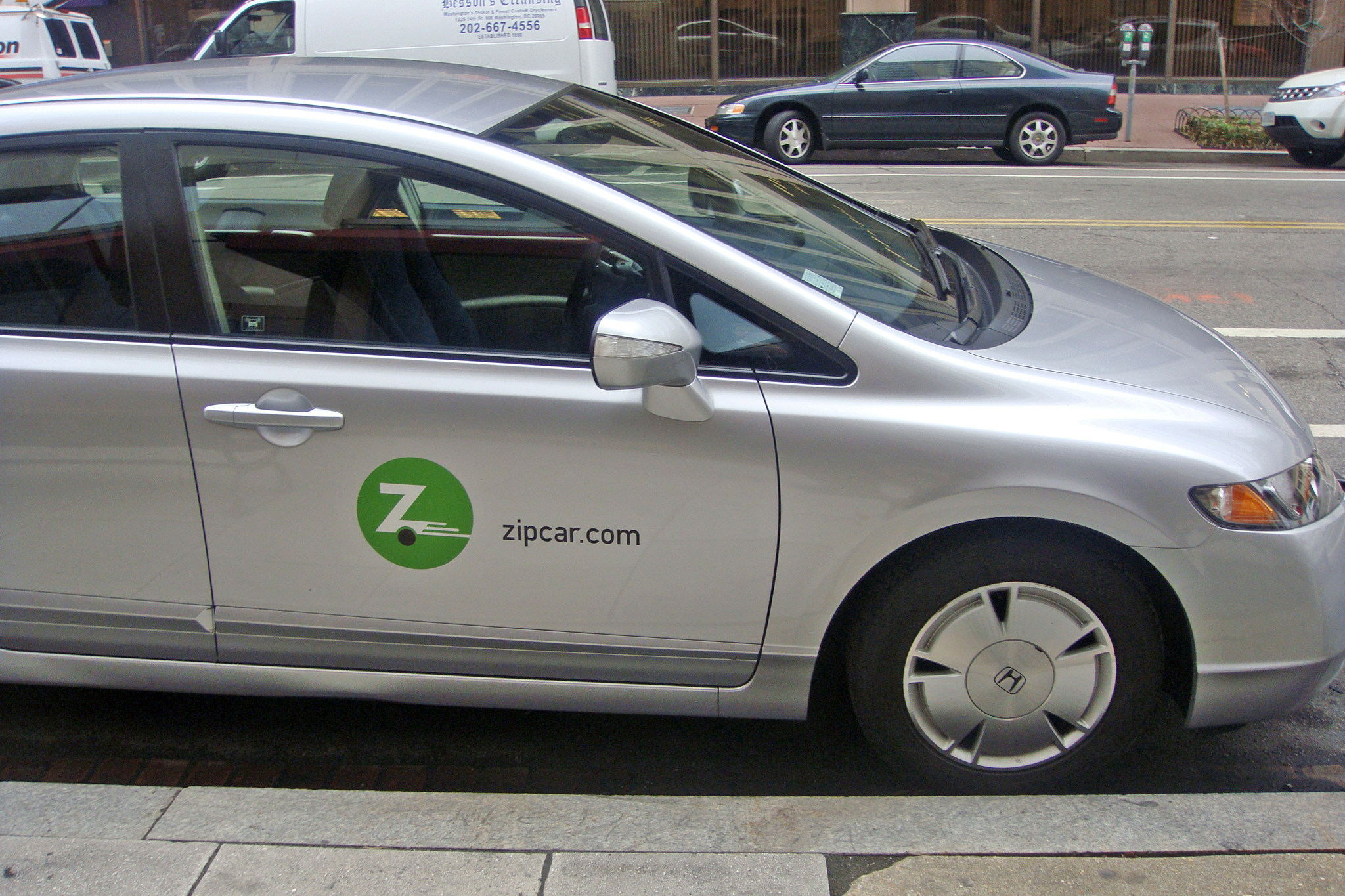 Zip car carsharing service at downtown Washington, D.C.